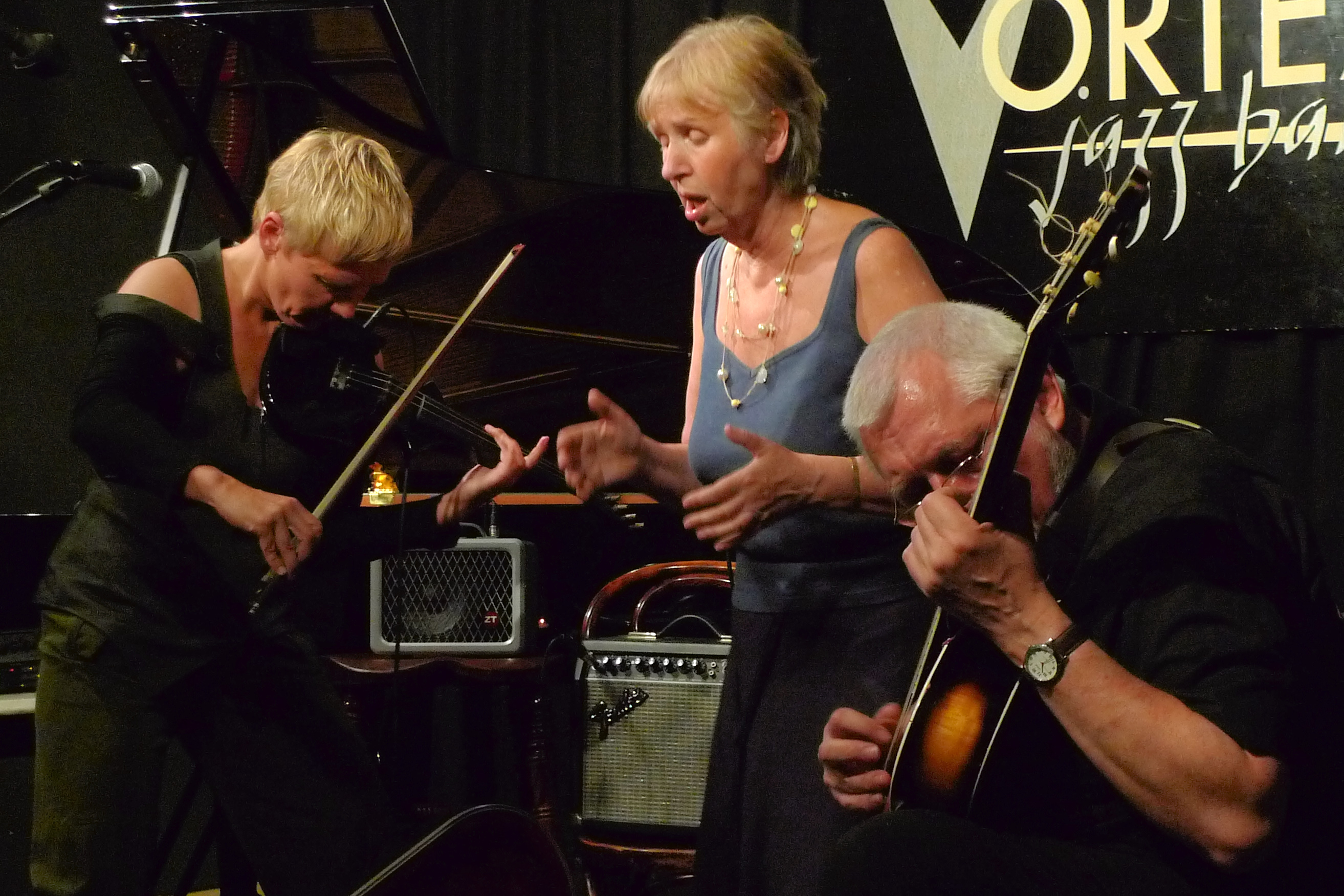 Trio Blurb – Maggie Nicols (voice) / John Russell (guitar) / Mia Zabelka (violin) @ Mopomoso, the Vortex, London 2011